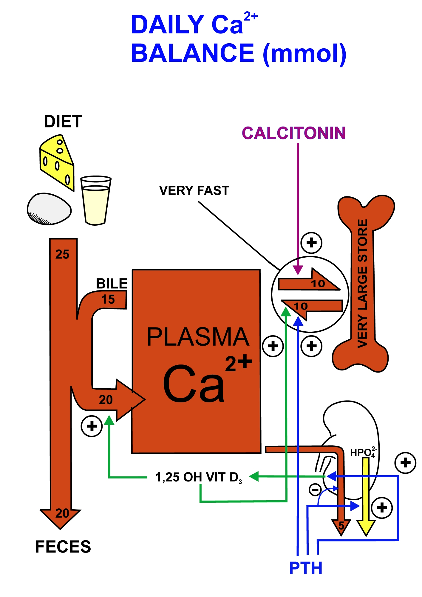 Calcium balance in the human body, showing the movement of calcium ions from the plasma (central square) in and out of the various body compartments. The red arrows are roughly in proportion to the quantities moved in and out of the plasma per day. The influence of the various hormones (indicated by means of narrow arrows with + and - signs near their target organs) indicate the effects of high plasma concentrations of these hormones. Low concentrations have the opposite effect.